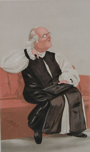 Caricature of The Right Reverend Harvey Goodwin, D.D., Bishop of Carlisle.